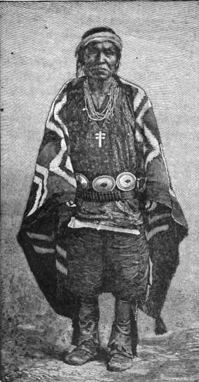 A Nineteenth Century member of the Navajo Tribe wearing silver conchos and other jewelry.